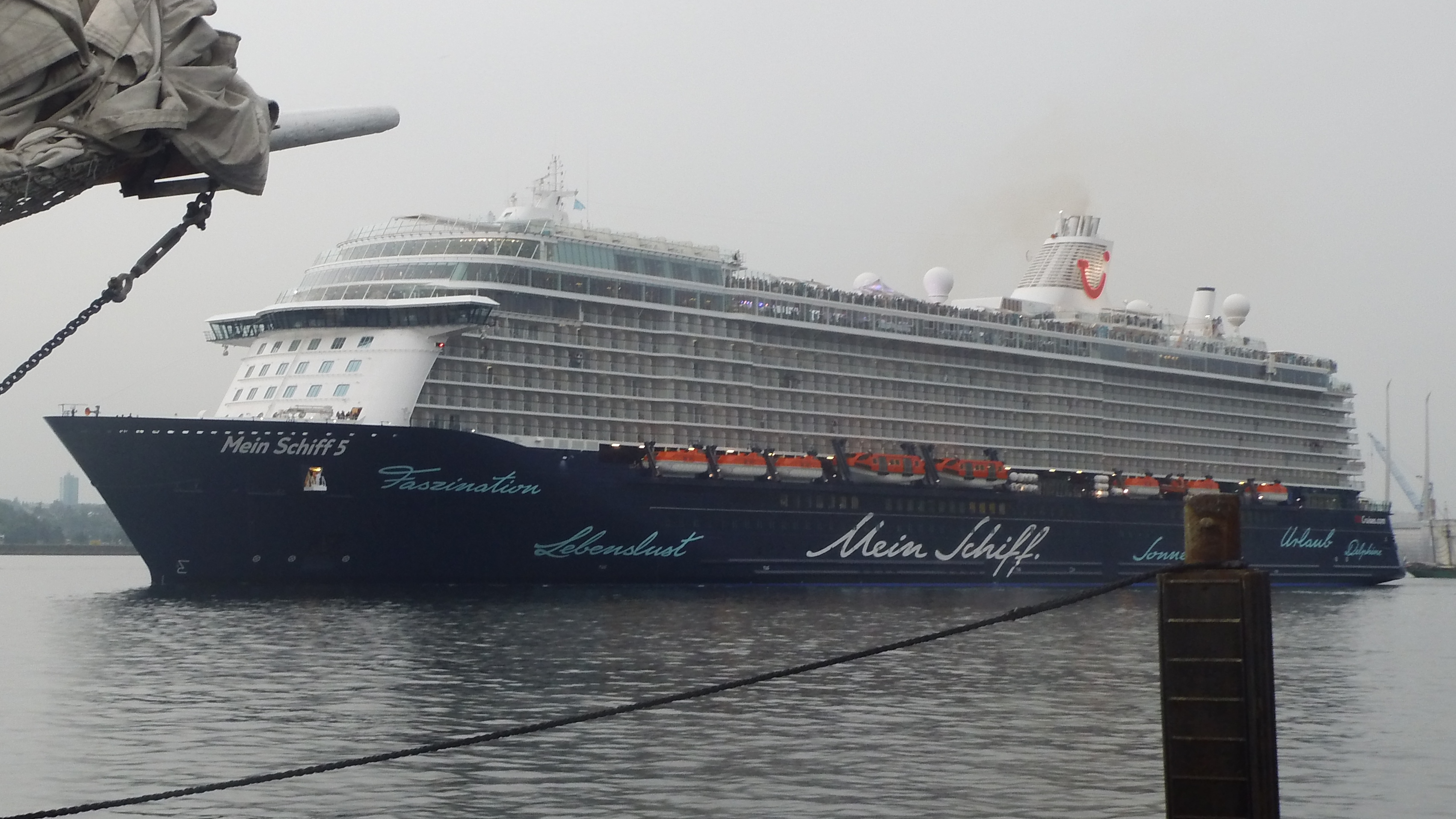 Mein Schiff 5 leaving Kiel for the first time.